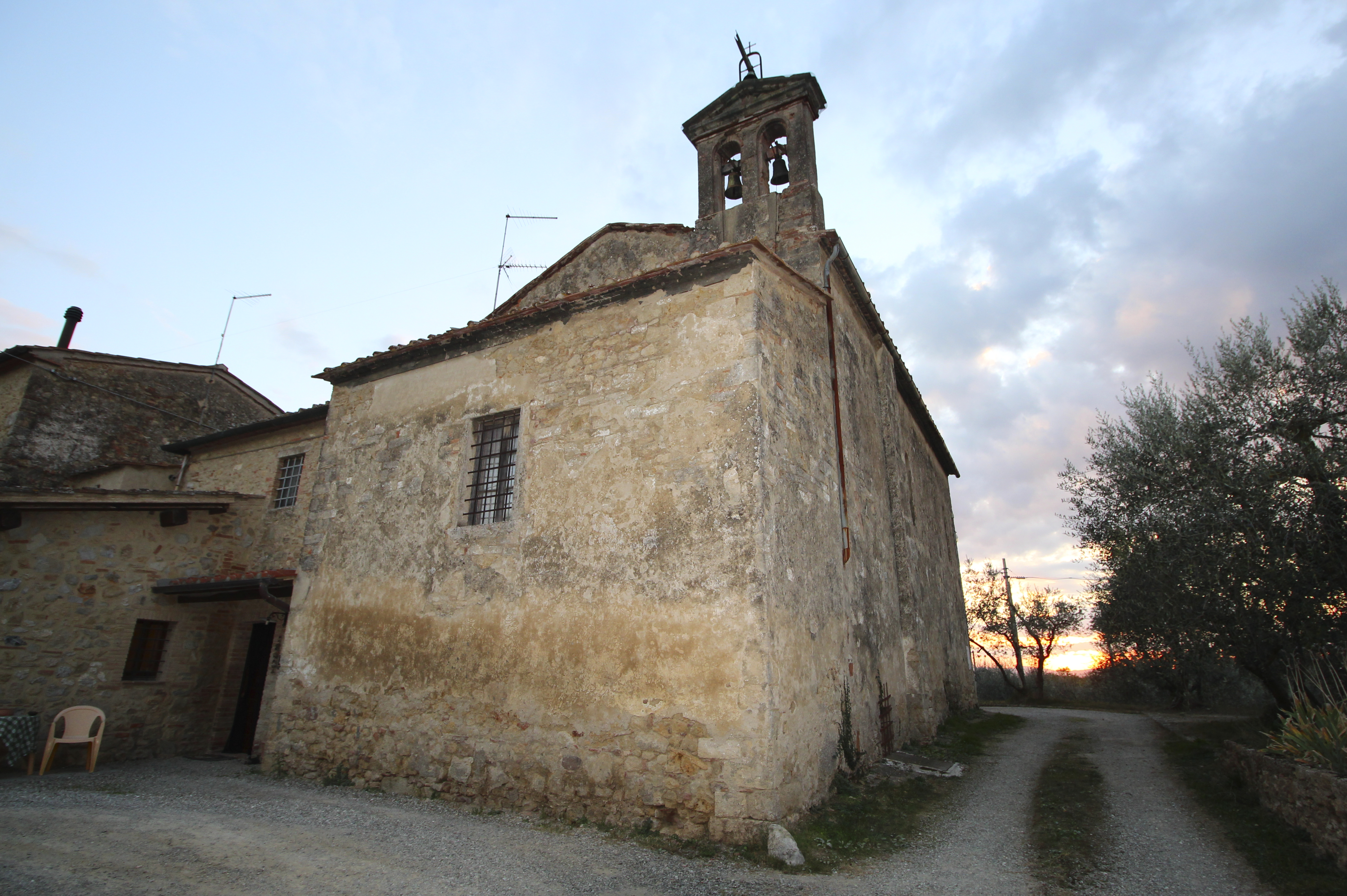 Church Santa Lucia a Bolzano (also: Santa Lucia a Bolsano), Case Bolzano, village in the territory of Poggibonsi, Province of Siena, Tuscany, Italy